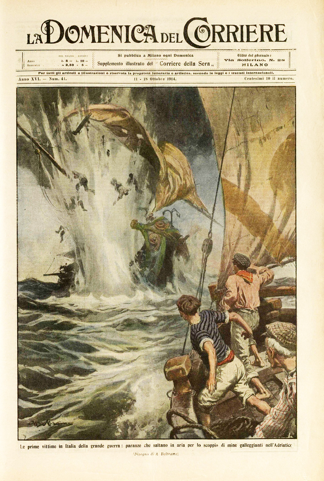 Scan of the first page of the edition of the "La Domenica del Corriere", an Italian magazine, with a drawing of Achille Beltrame depicting an Italian fishing vessel destroyed by Austrian naval mines (Adriatic Sea - 1914)